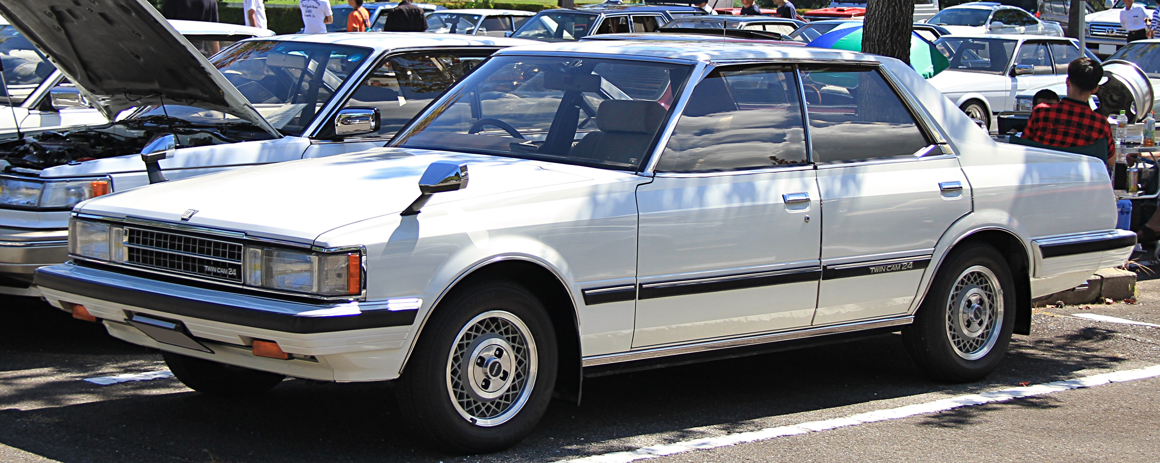 Toyota Cresta